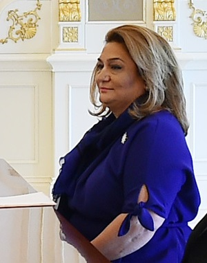 Hicran Hüseynova